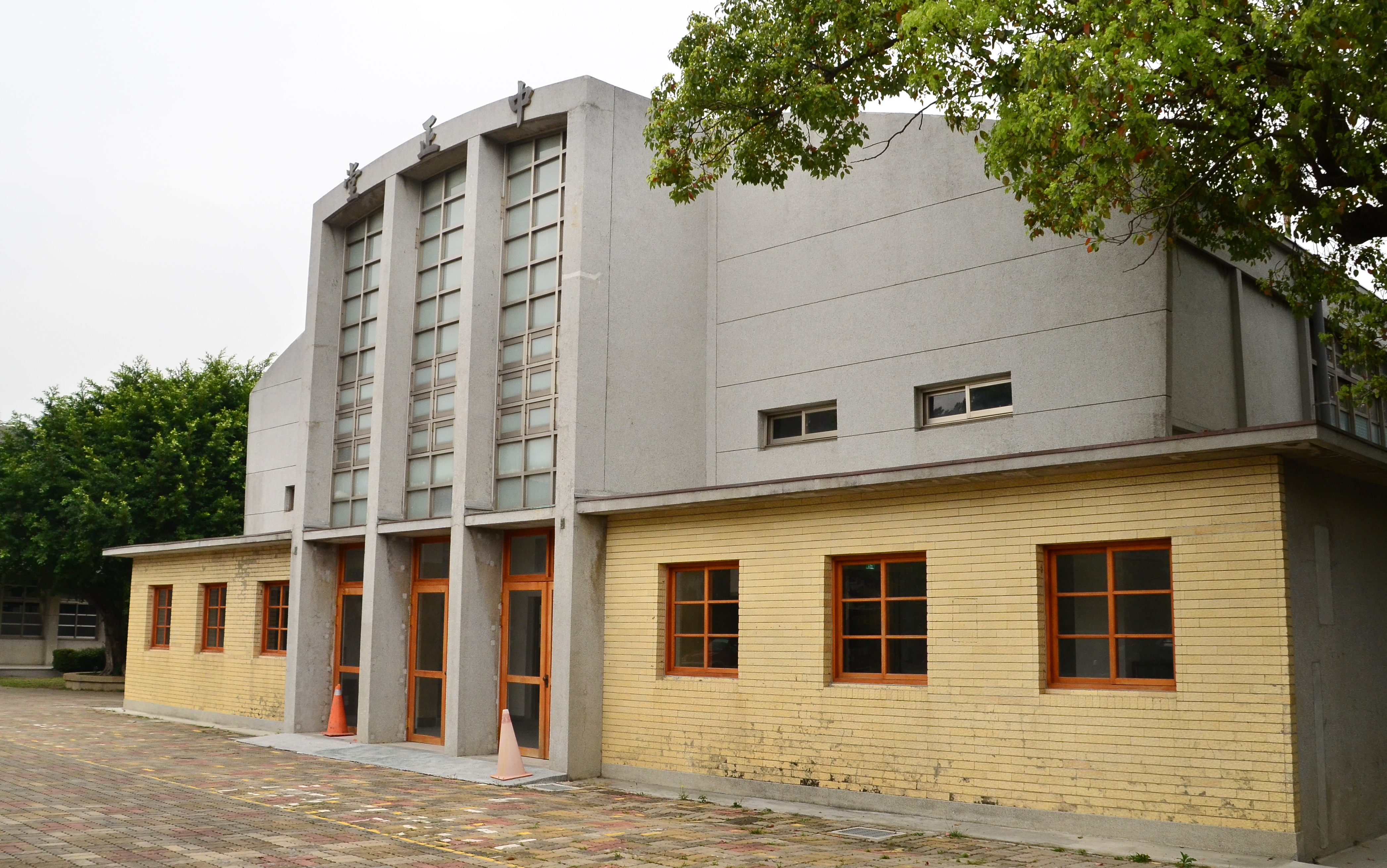 Jhongjheng Hall, Beidou Township, Changhua County, Taiwan.